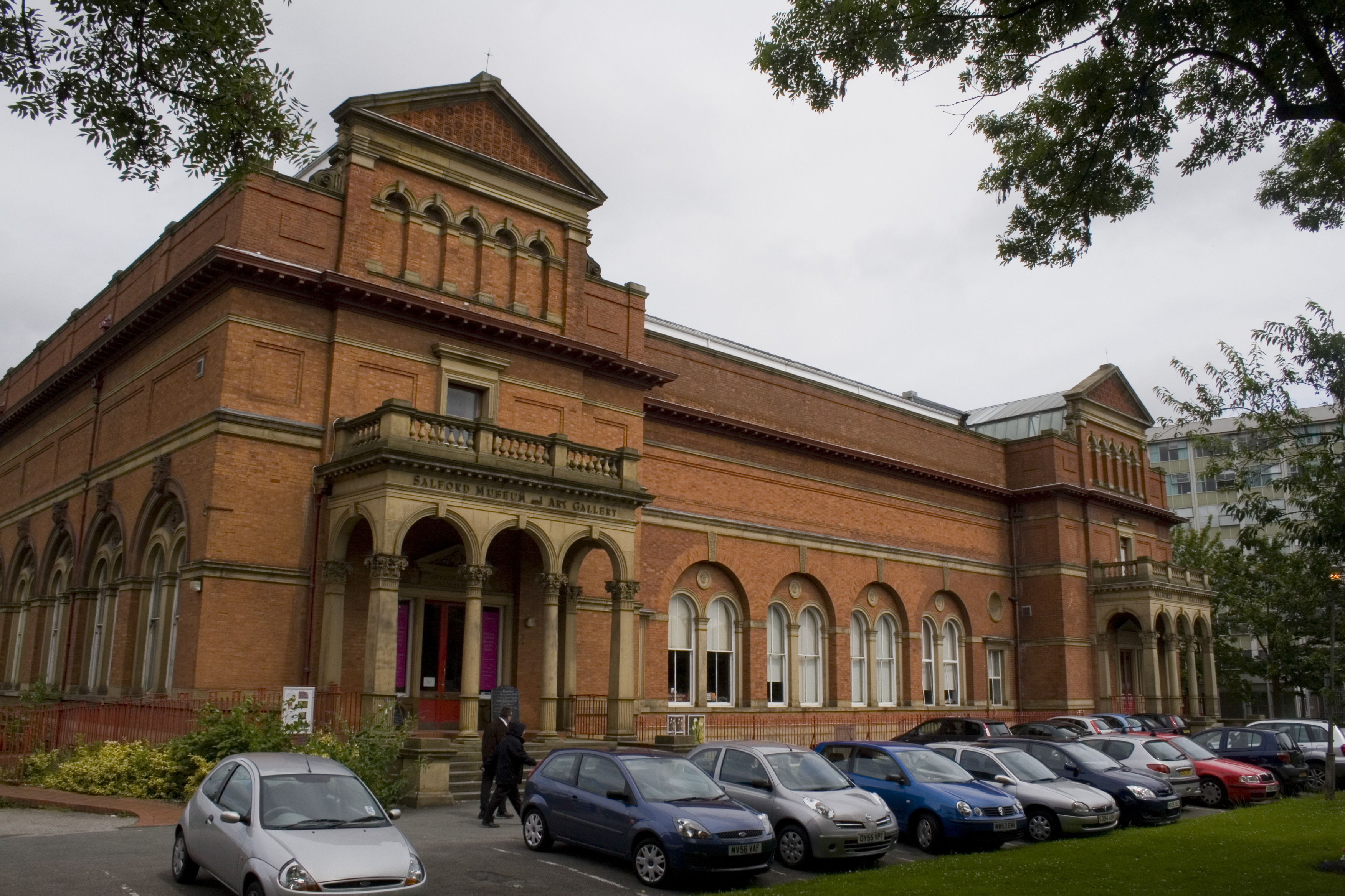 Salford Museum and Art Gallery, next to the Peel building (out of frame to the left) at Salford University.